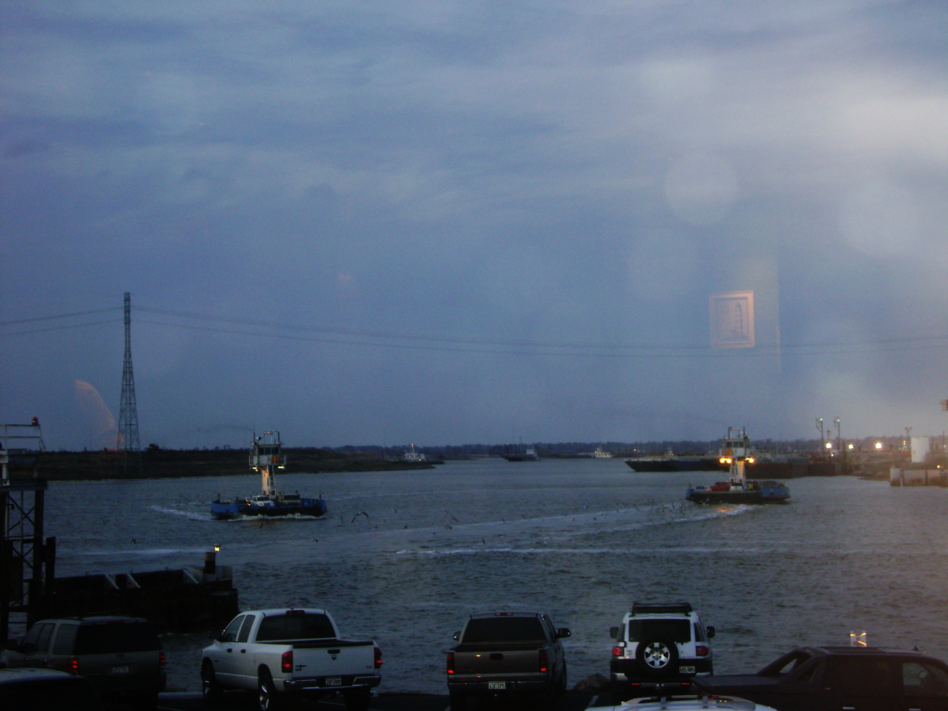 The light was failing, the Monument Inn was nearby, and oysters on the half shell sounded really really good. The ferry, one route home, had a two boat wait when we got there, but the line left room for us to enter the restaurant's parking lot. The note taped to the door said that they were out of oysters on the half shell. But we were there, and, though the menu is a bit heavy on the fried, the seafood is fresh, the service good, and the view excellent. When we left, we turned and drove right onto the ferry.